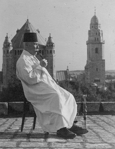 Armenian priest relaxing with a hookah in Jerusalem.